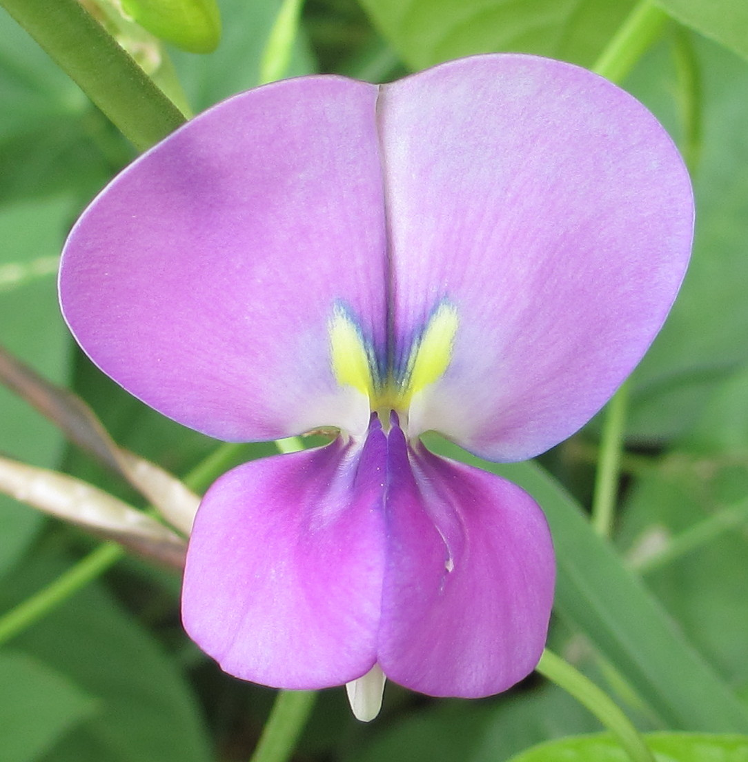 The wild cowpea is quite common in Mozambique and other parts of Africa. It has small, dehiscent pods. Very variable. This specific plant is a vine with rather large leaves for wild cowpea.